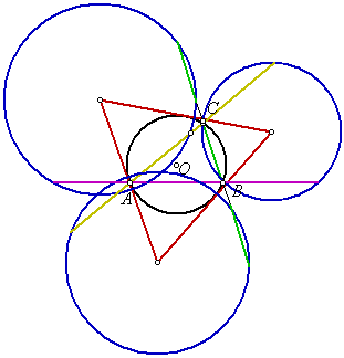 The Stammler circles and circumcircle